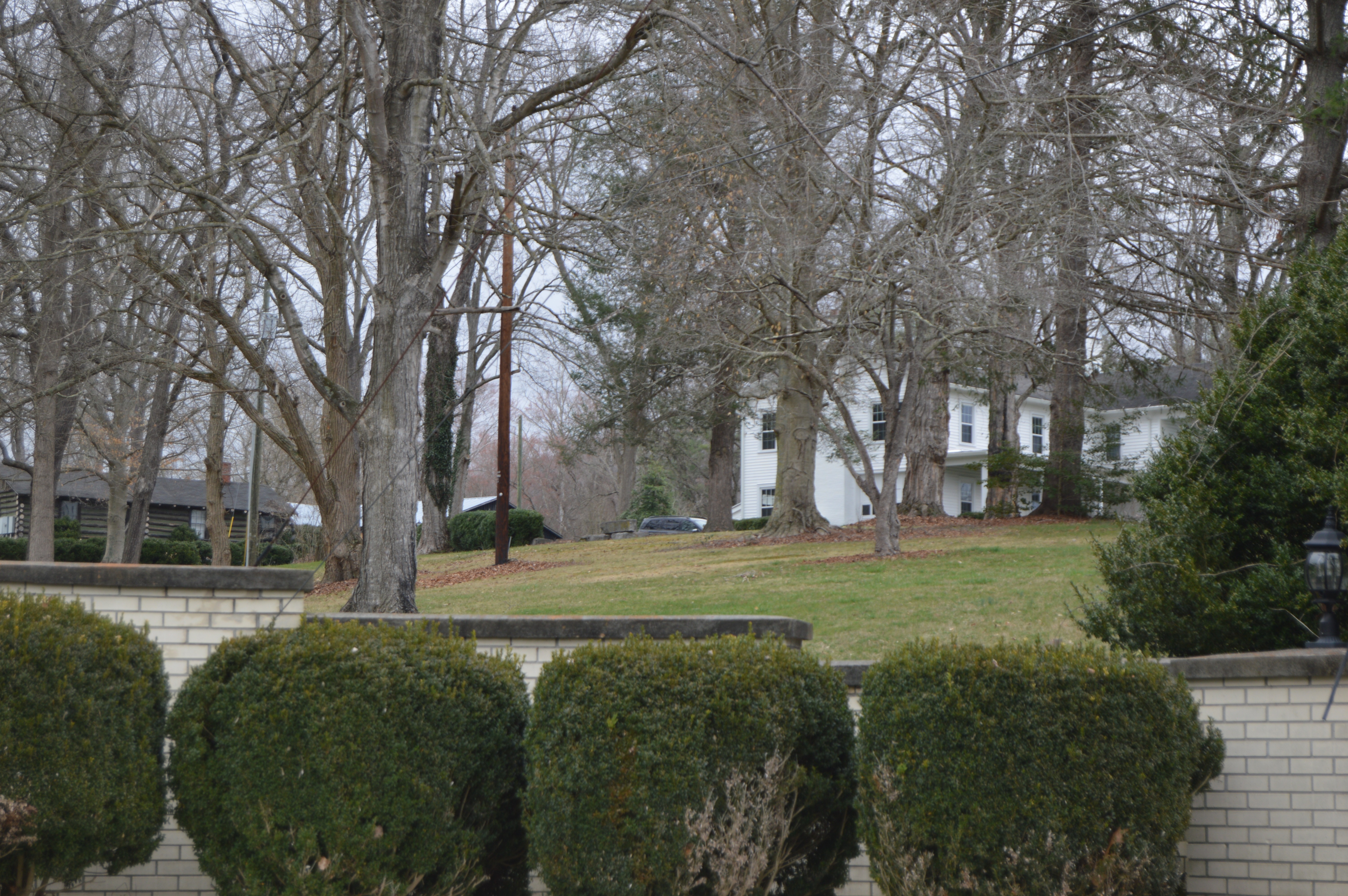 Street view of the Alexander McVeigh Miller House, located on Hemlock Avenue at Virginia Street in Alderson, West Virginia, United States. Built in 1881, it is listed on the National Register of Historic Places.